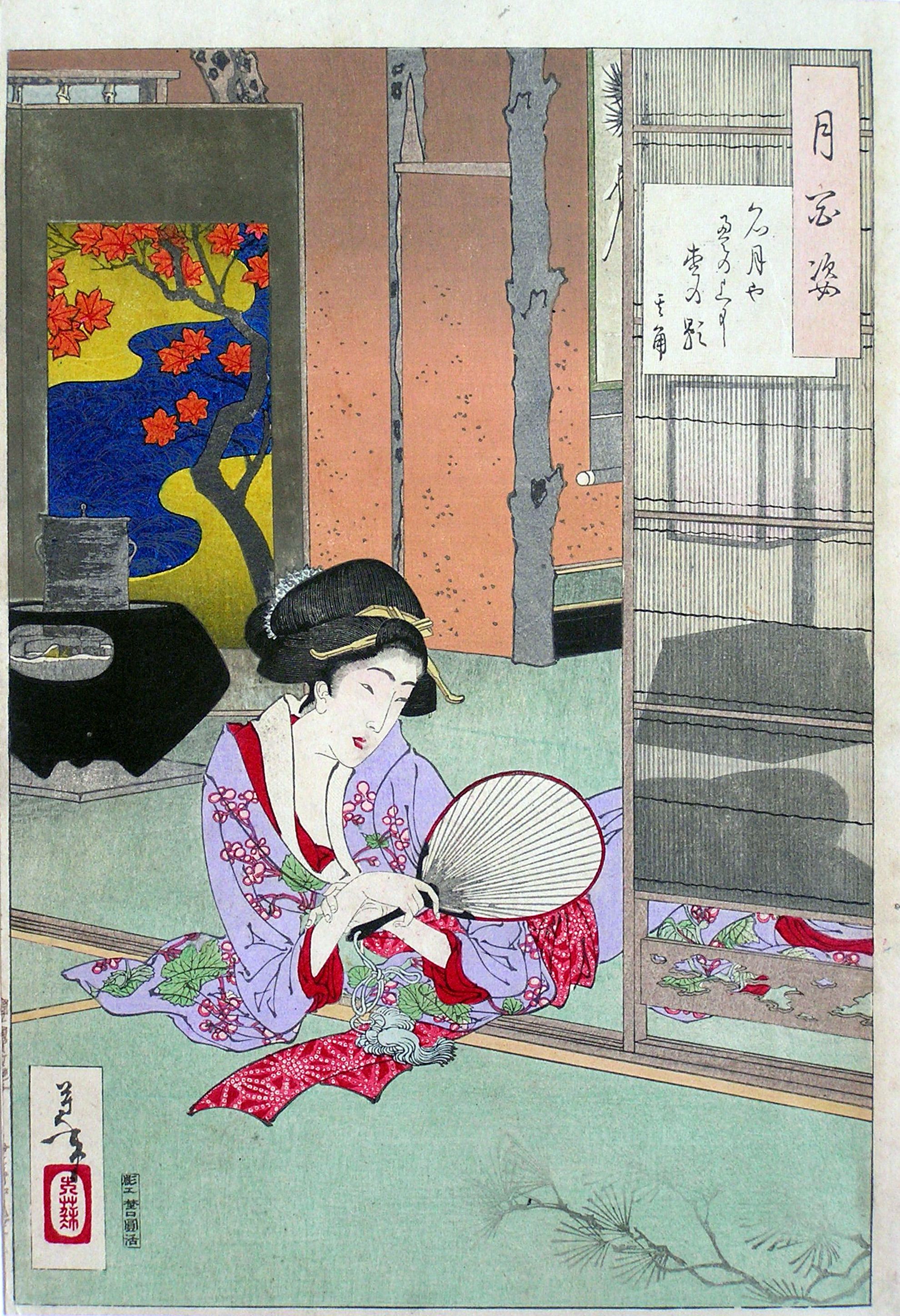 Woman watching the shadow of a pine branch cast by the moon